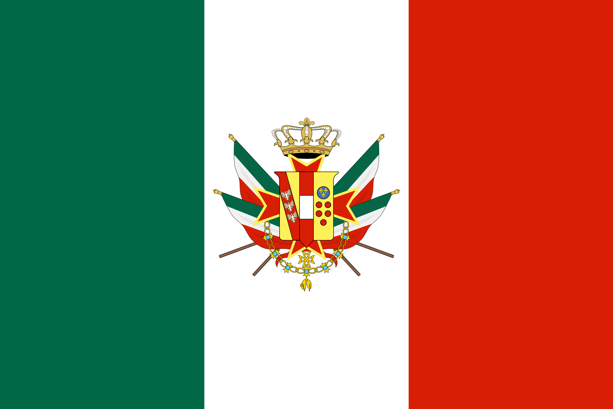 1848 Grand Duchy of Tuscany flag.